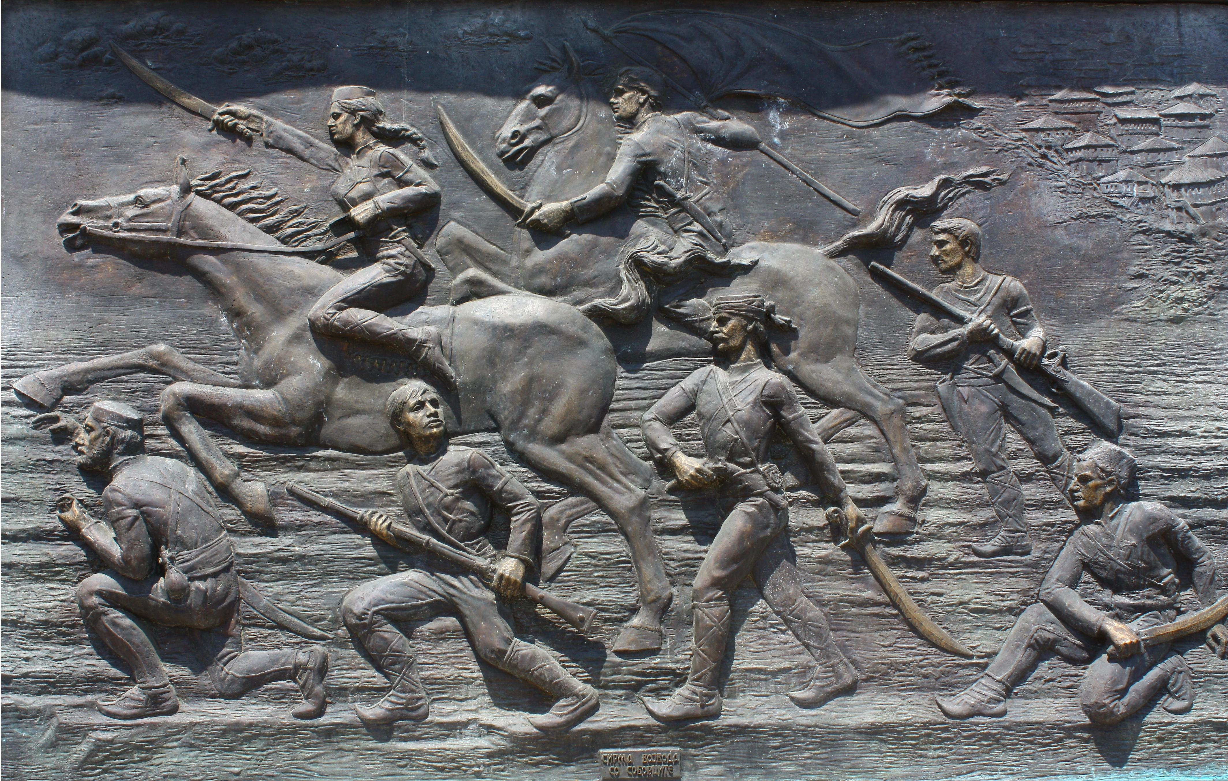 Plaques of Sirma Vojvoda on Lions Sculptures in Skopje, Macedonia